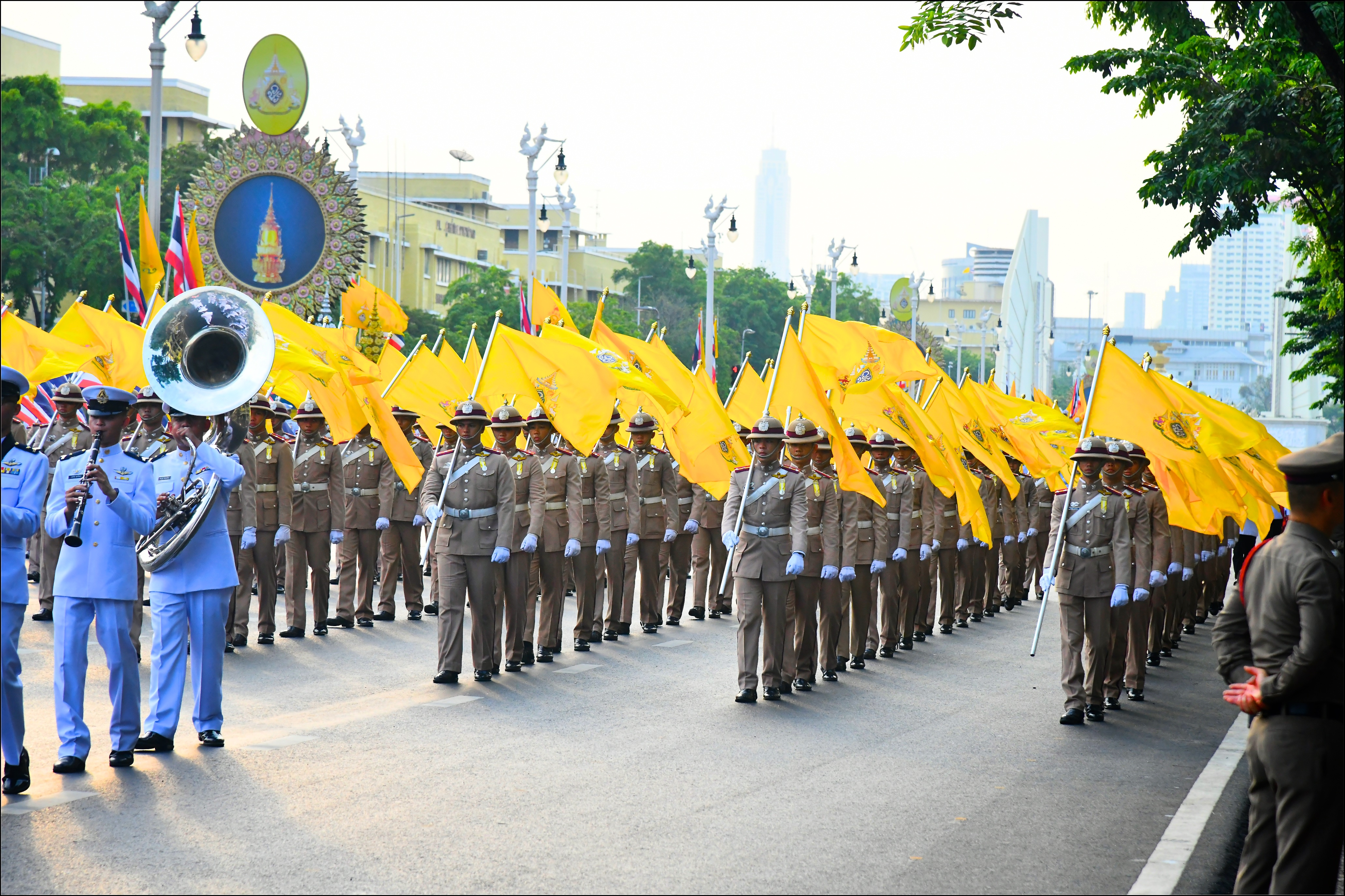 the Coronation of King Rama X B.E. 2562 (2019), of Thailand.